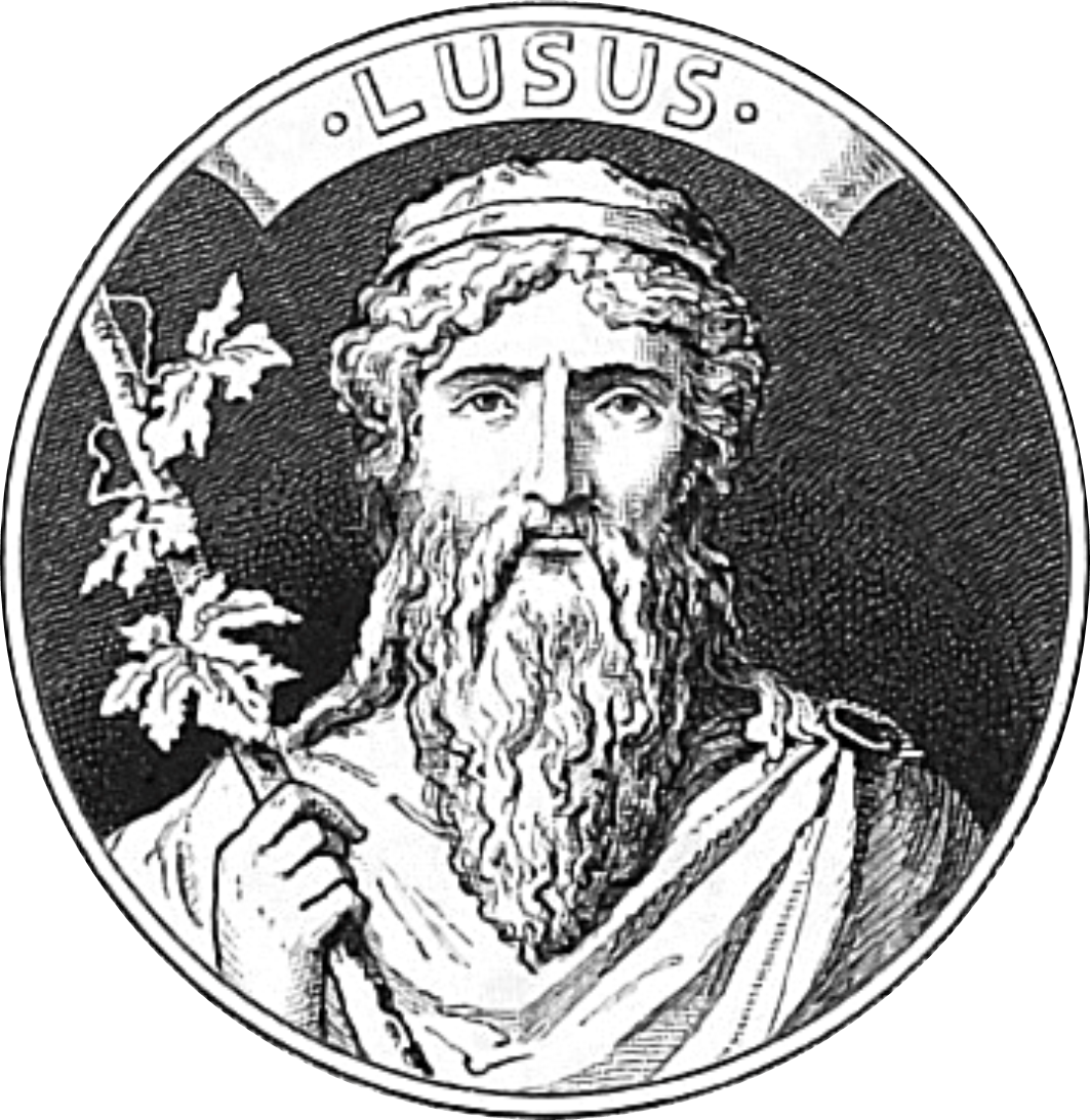 The god Lusus, the supposed son or companion of Bacchus.